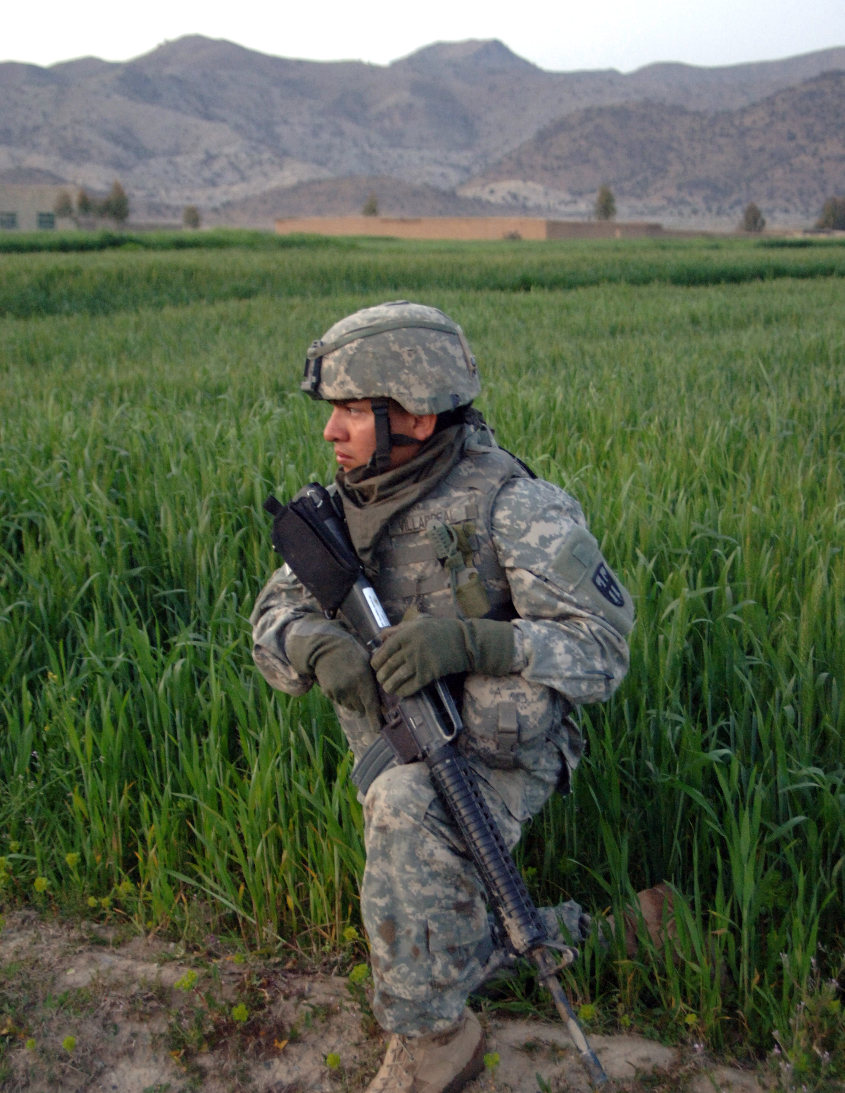 U.S. Army Spc. Marcelino Villarreal, from Charlie Company, 1st Battalion, 162nd Field Artillery Regiment, Puerto Rico National Guard, provides security while Soldiers from Charlie Company, 26th Field Artillery Regiment recover a humvee stuck on a muddy road in the Khost Province, Afghanistan, March 25, 2007. (U.S. Army photo by Staff Sgt. Isaac A. Graham) [1]